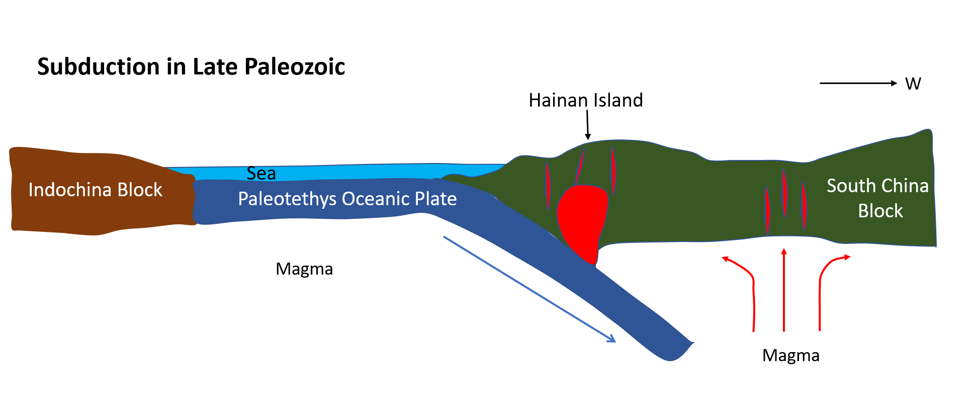 Late Paleozoic geological setting of Hainan Island